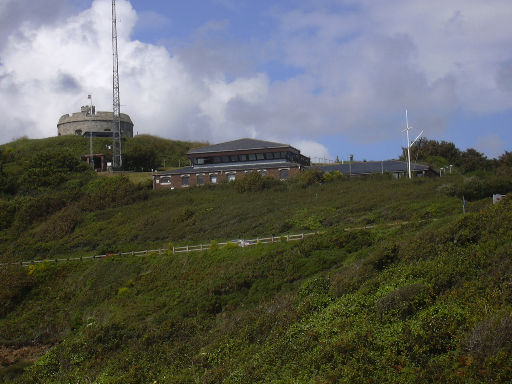 Coastguard & Henrican castle, Pendennis head, Falmouth